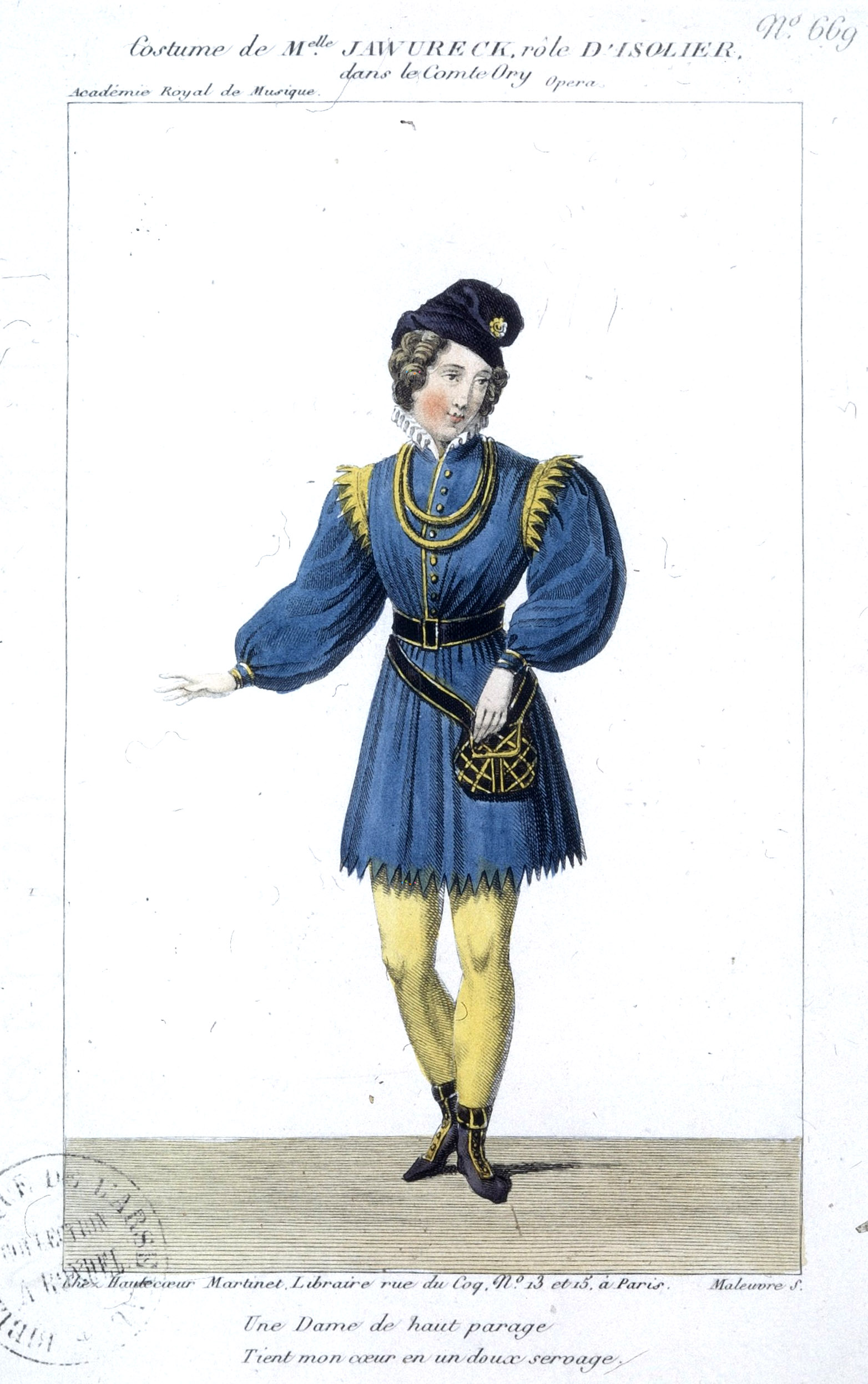 Costume design for Constance Jawureck [Jawurek] (1803–1858), a French mezzo-soprano, as Isolier in Rossini's Le comte Ory, a role she created at the Académie Royale de Musique in Paris on 20 August 1828